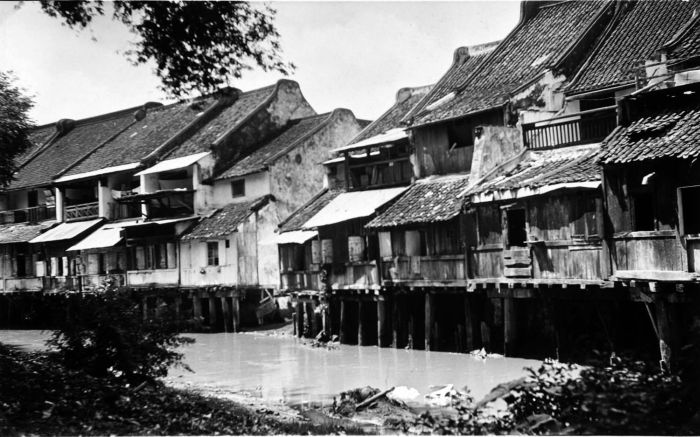 Photograph. Chinese houses along a stream in Semarang.